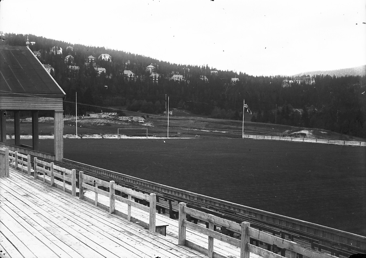 Gressbanen stadium at Vestre Holmen in Oslo, Norway, in the opening year 1918. Photographer: Johannes Holmsen.